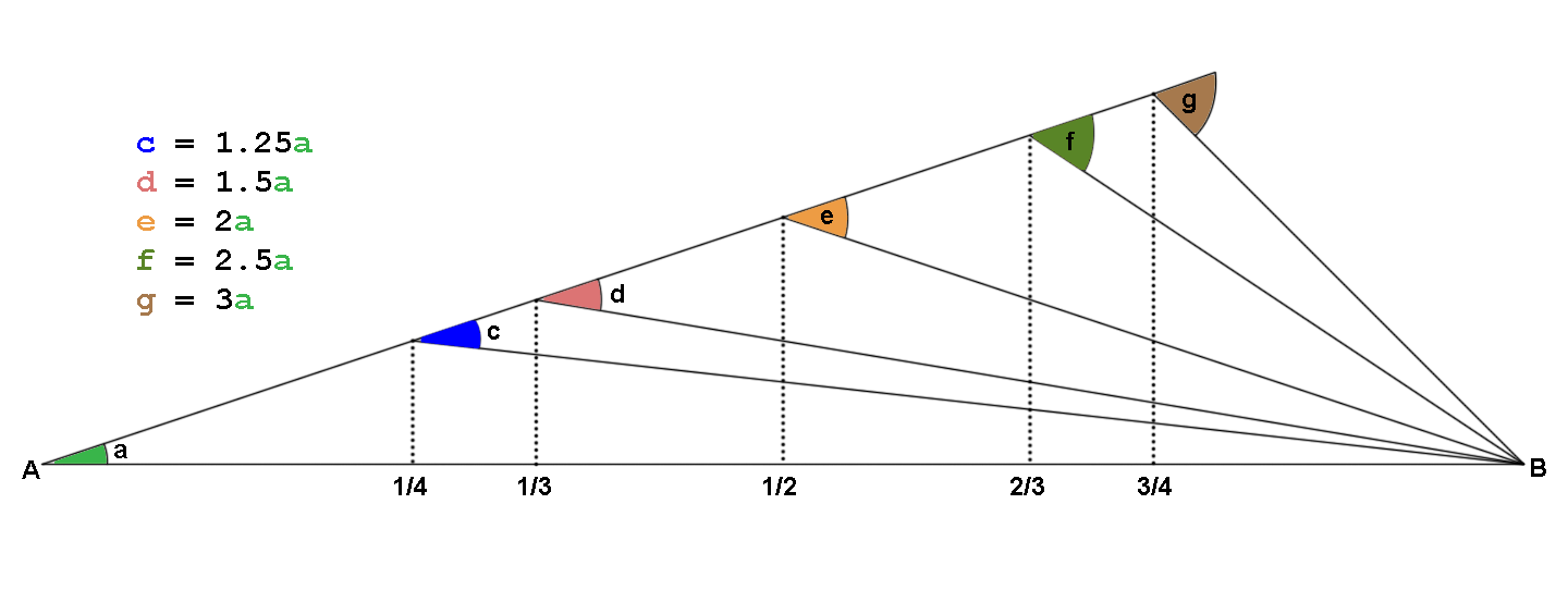 Fan lines, track error and approximate correction angle. For example, if the aircraft is 10 degrees off course after travelling 2/3 of the leg, the correction angle is "approximately" 25 degrees (10X2.5). Therefore the pilot should change the heading 25 degrees towards the destination (B). This method could be used in conjunction with 1 in 60 rule.